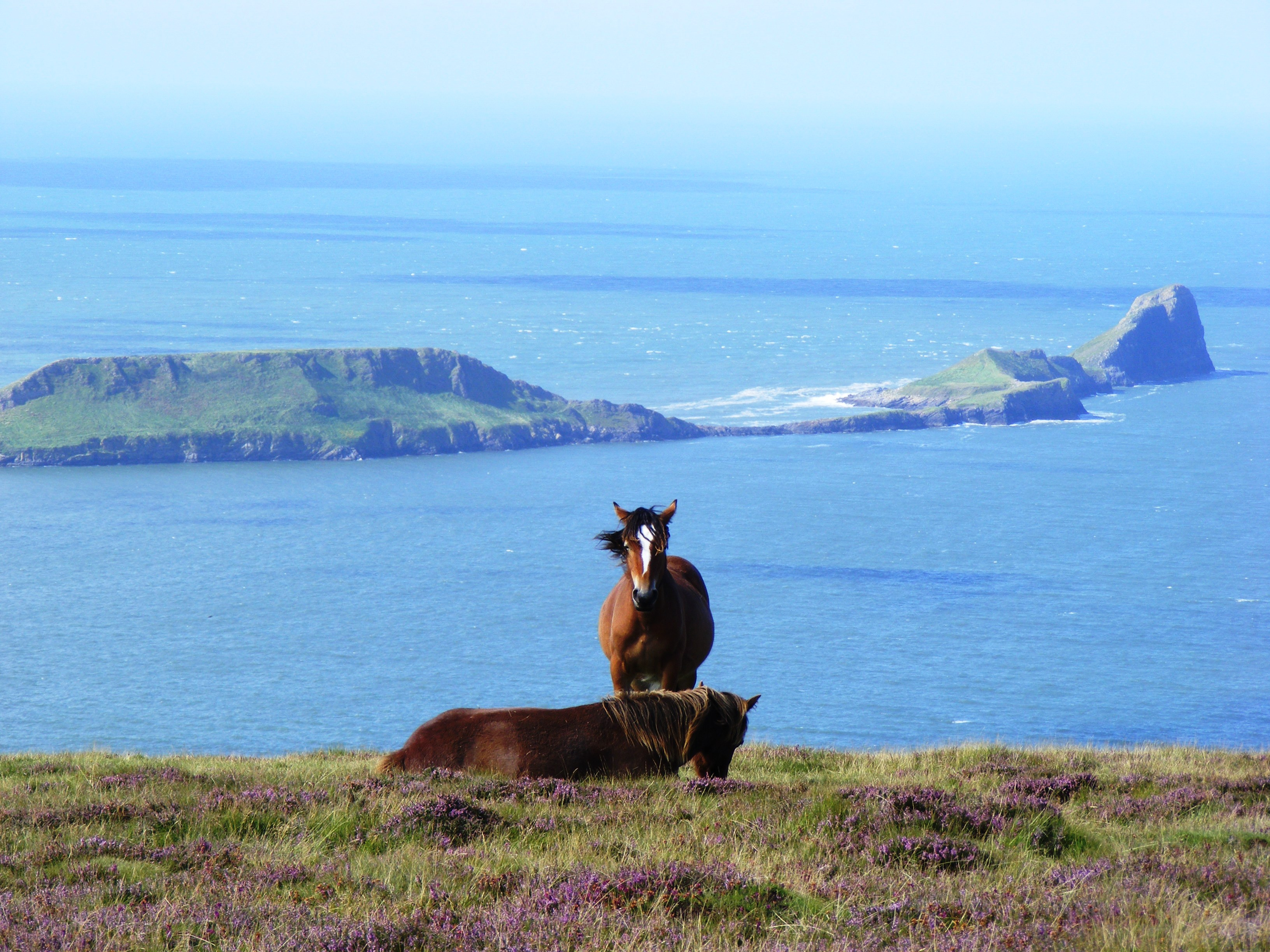 Horses on the Gower Peninsular, with the Worms Head in the background.